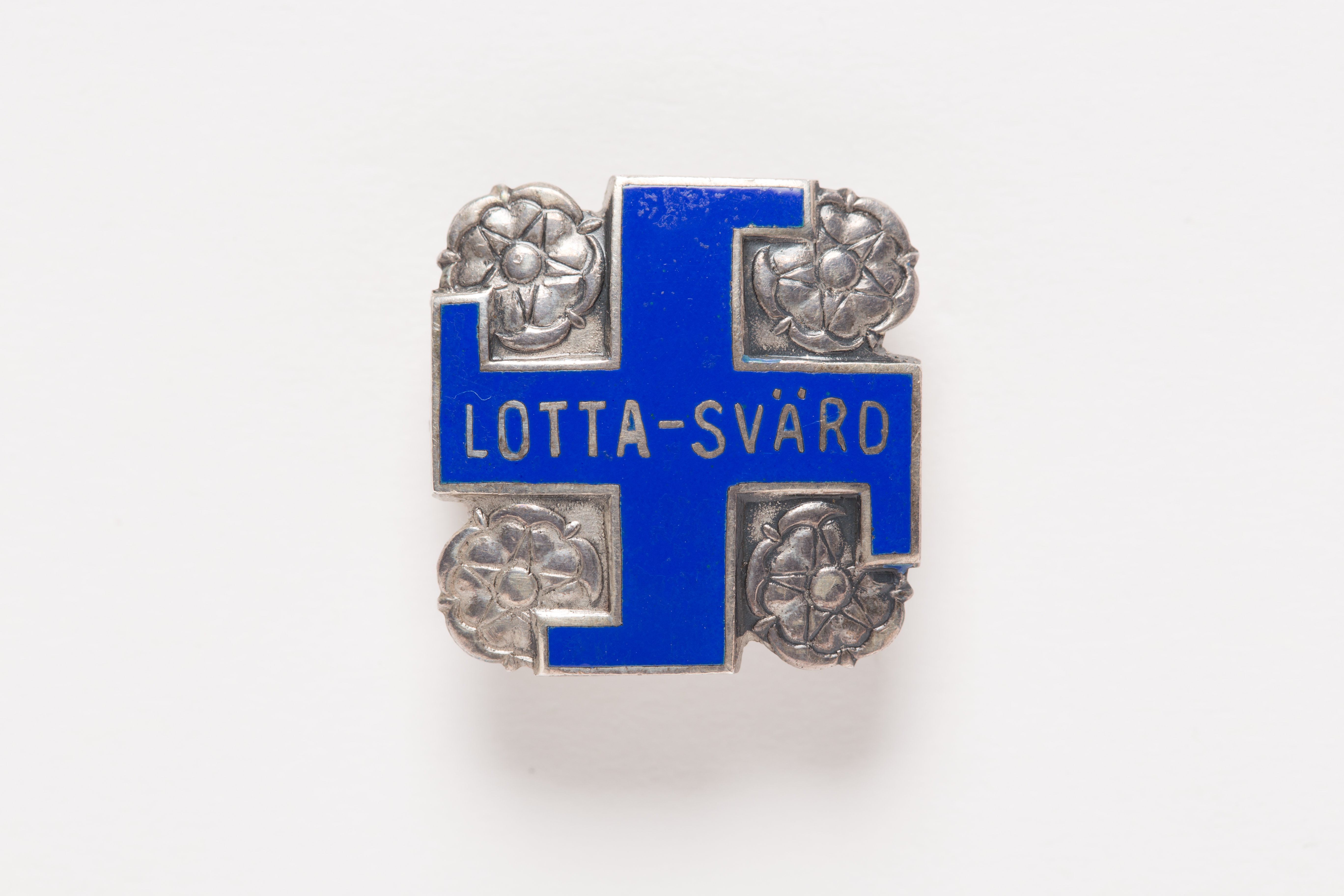 Badge, Lotta-Svard square form; blue swastika at centre with legend; flowers in each corner; pin fastening reverse- hallmarked